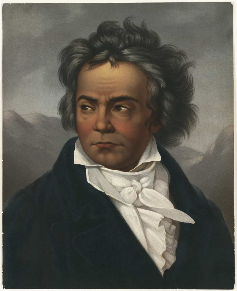 File name: 07_11_000589 Title: Beethoven Creator/Contributor: Schimon, Ferdinand, 1797-1852 (artist); L. Prang & Co. (publisher) Date issued: 1861-1897 (approximate) Copyright date: Physical description note: Genre: Chromolithographs; Portrait prints Location: Boston Public Library, Print Department Rights: No known restrictions Flickr data on 2011-08-07: Camera: Sinar AG Sinarback 54 FW, Sinar m License: CC BY 2.0 User: Boston Public Library BPL